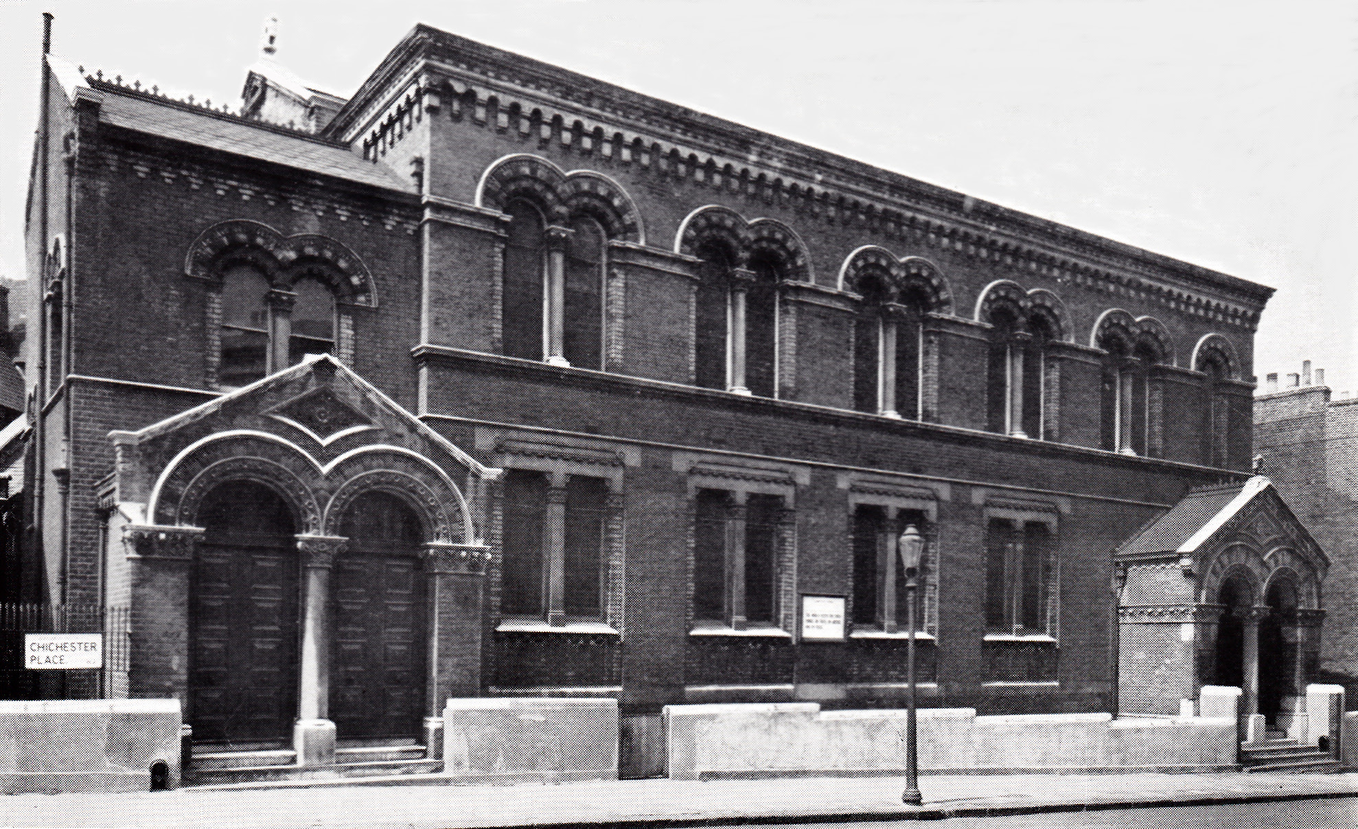 The former Bayswater Synagogue that stood in Chichester Place, London W2 from 1863 to 1965. It was demolished for construction of the Westway road overpass and the Warwick Estate housing redevelopment which replaced streets heavily affected by Second World War bombing of the nearby Great Western Railway and Paddington railway terminus.